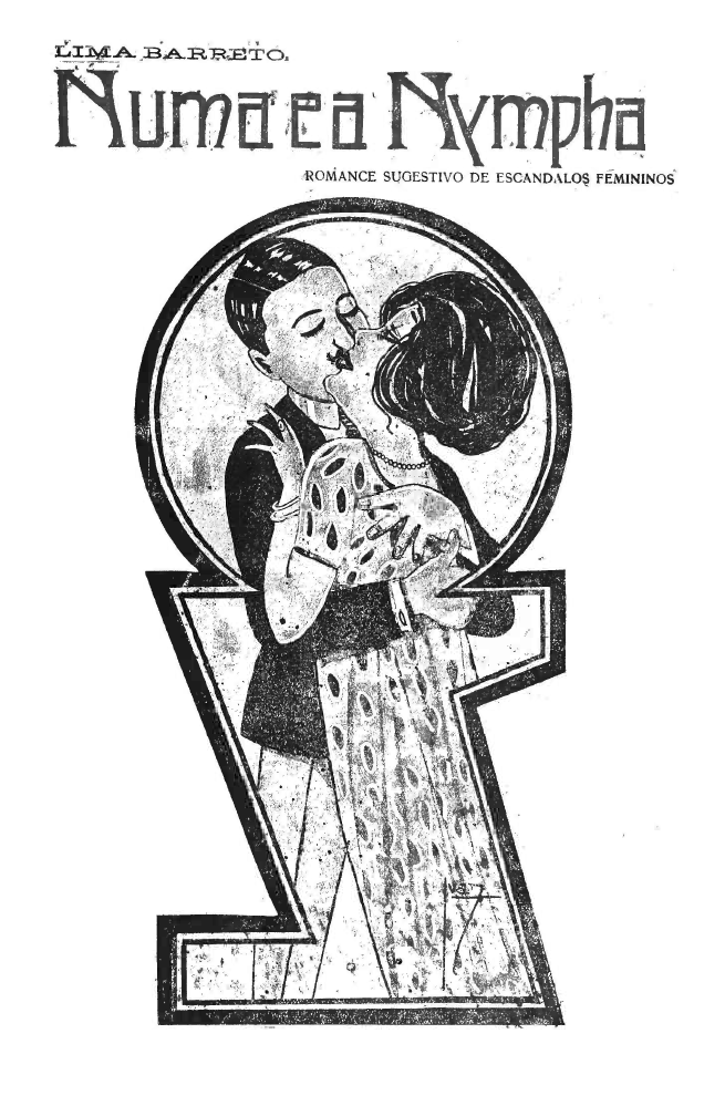 Numa e a nympha' Cover, 1915